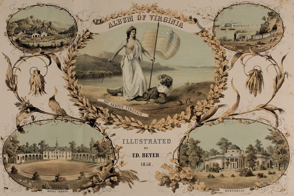 Image from Edward Beyer. Album of Virginia (1858); Lithographs by Rau & Son, Dresden, and W. Locillot, Berlin